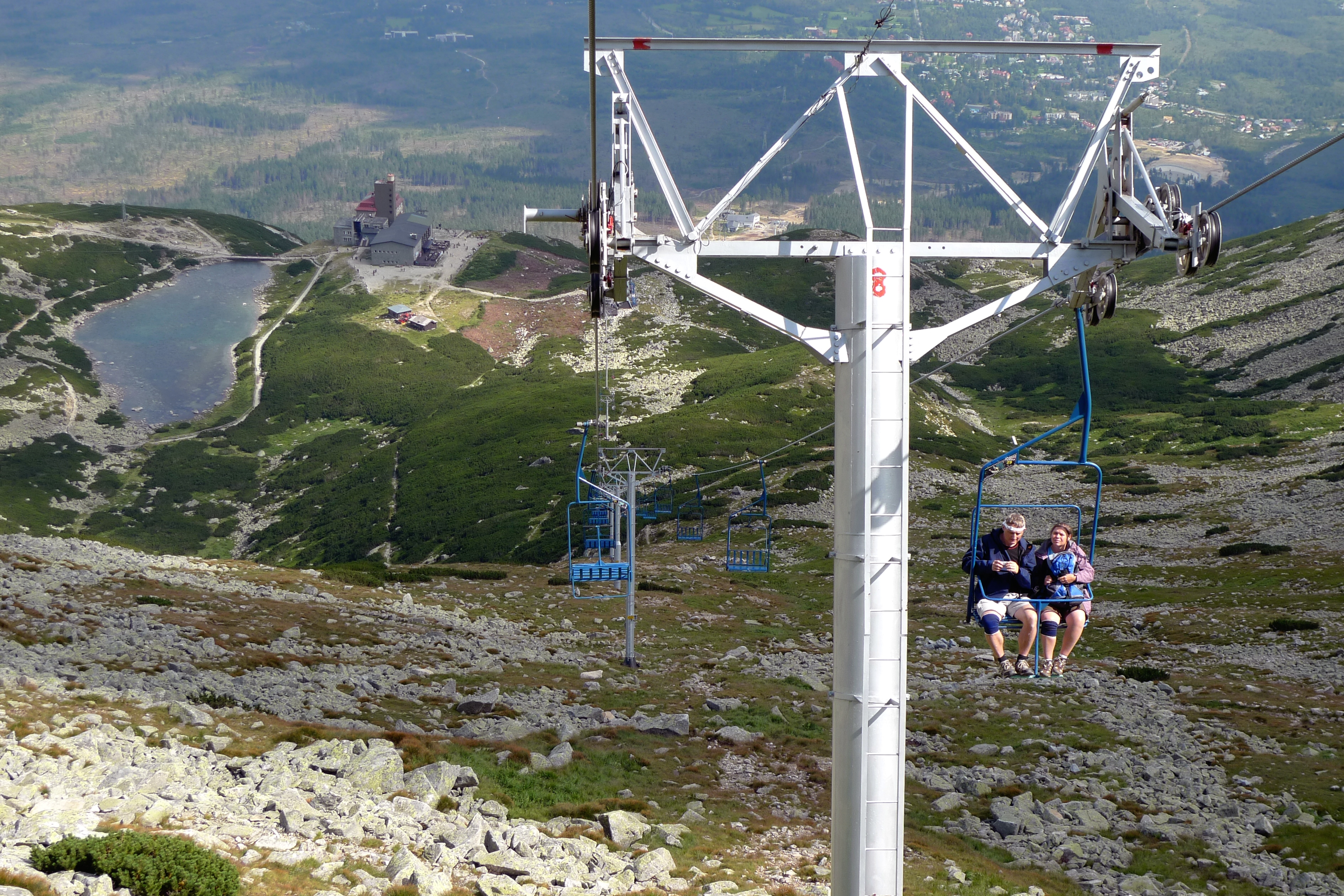 Chairlift Skalnaté pleso - Lomnické sedlo Česky: Sedačková lanovka Skalnaté pleso - Lomnické sedlo